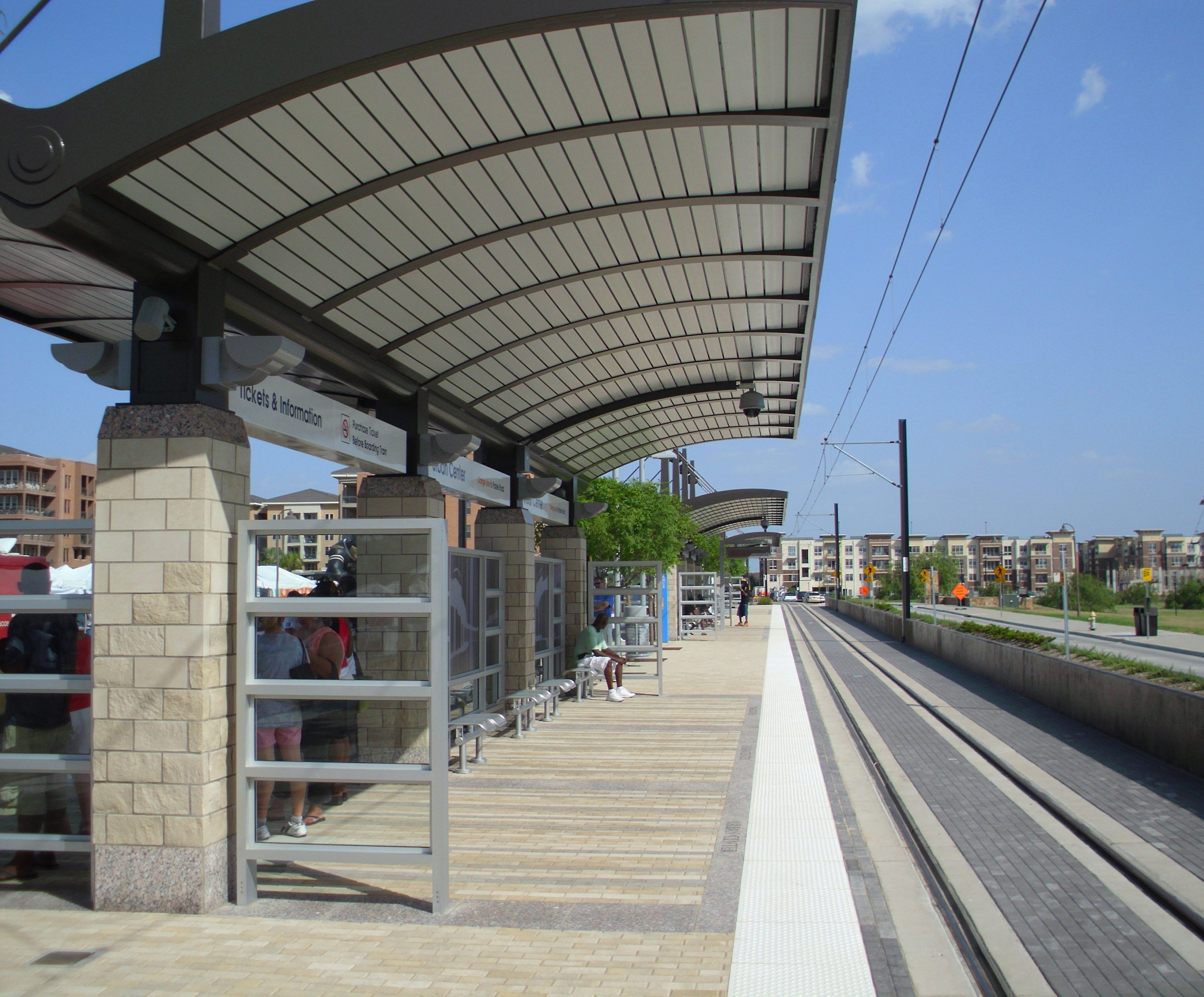 Passengers at Las Colinas Urban Center Station waiting for the DART light rail train, during the DART Orange Line Grand Opening.